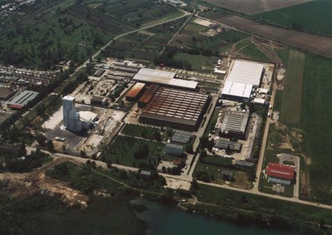 Alsózsolca, Hungary, aerialphotography